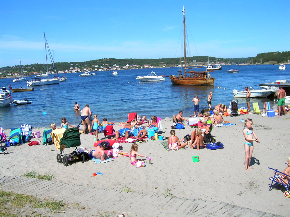 Beach at Merdø island, Arendal, Norway